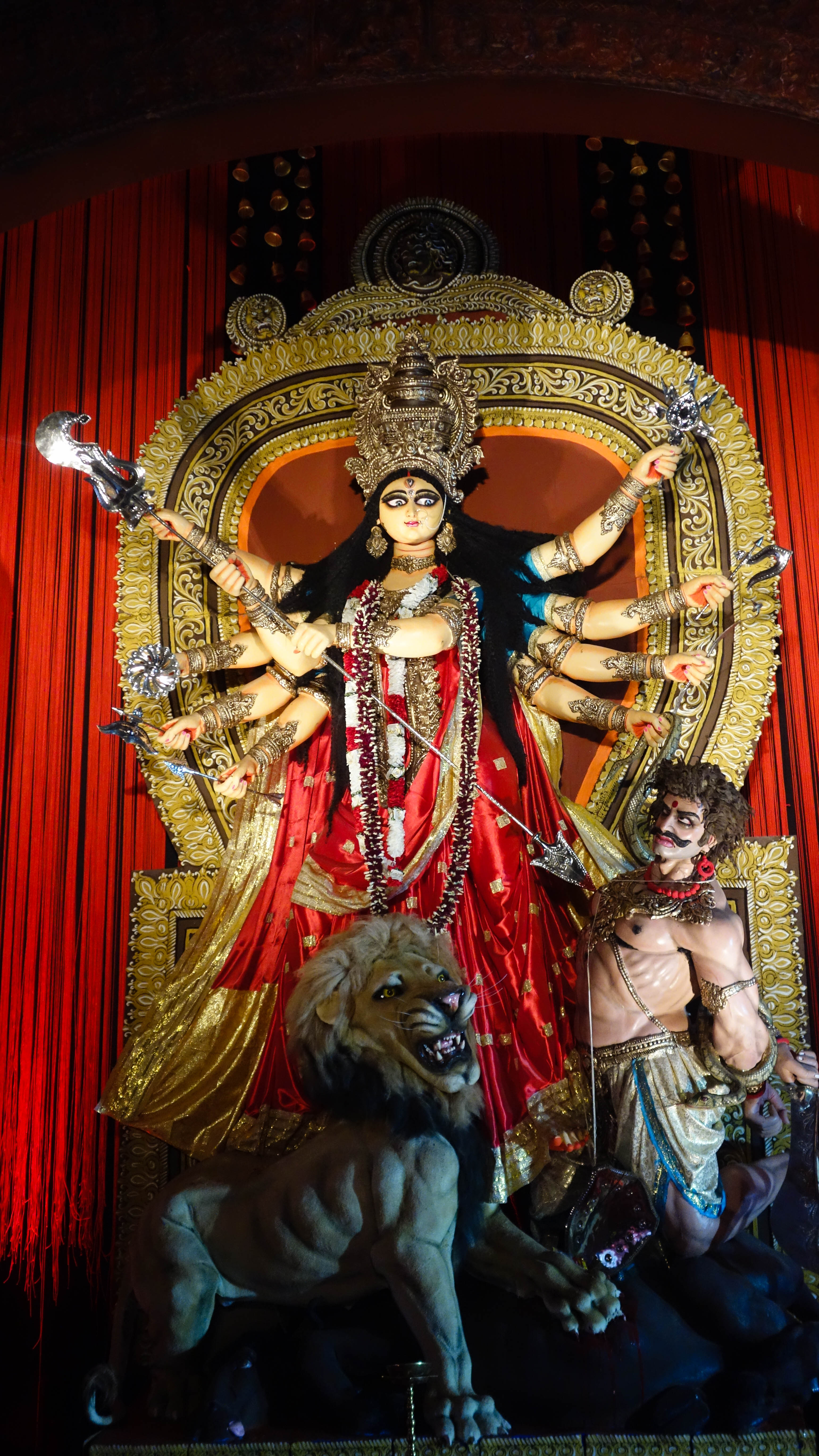 Durga Devi Images - An image of Maa Durga on display during Durga Puja in Kolata